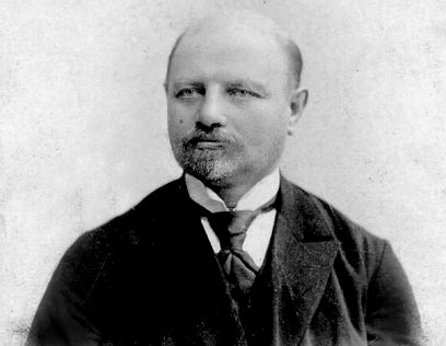 Known old photo of Israel Belkind (d. 1929)